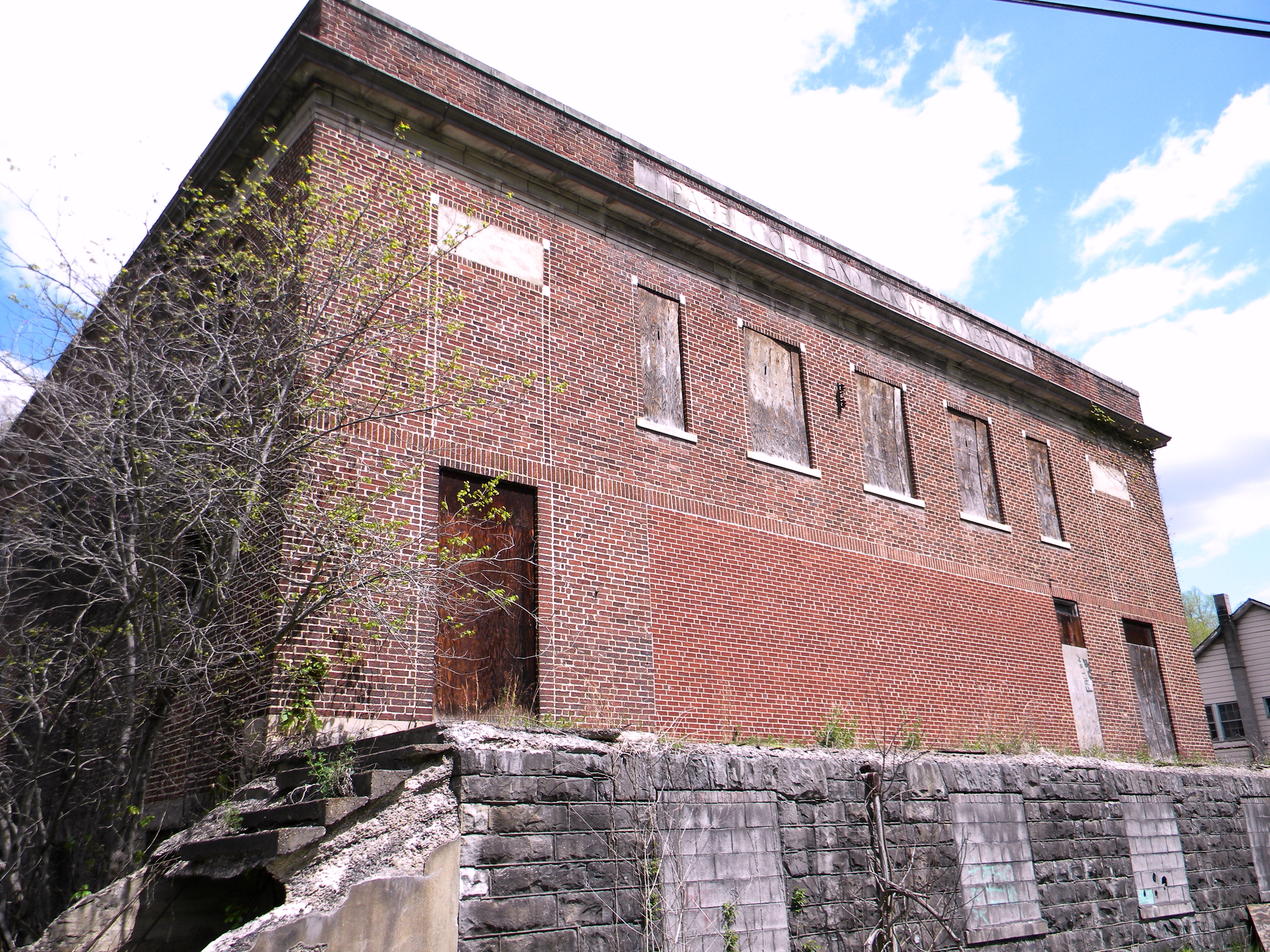 Improved front image of the Pageton Coal and Coke Store